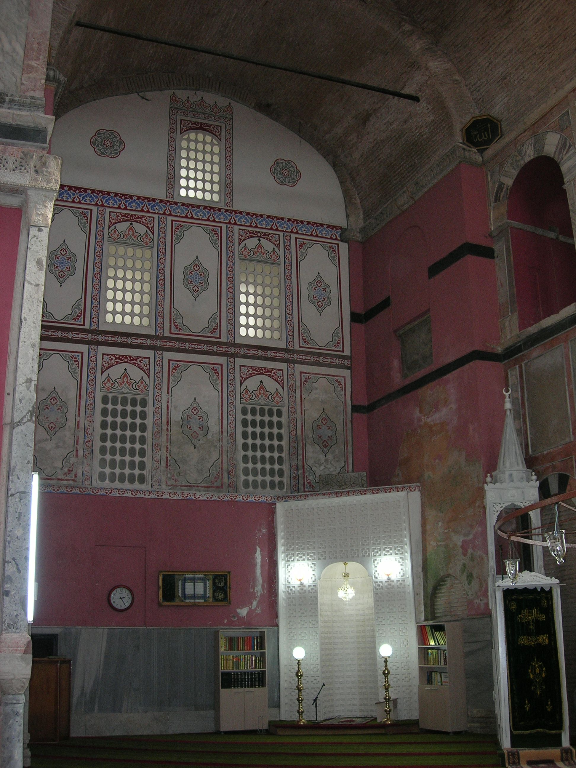 The Mirhab of the Mosque of Kalenderhane in Istanbul. It is a former a Roman bath, and then an Eastern Orthodox church originally dedicated to the Theotokos Kyriotissa until 1453 C.E. It is among the few still extant examples of a Byzantine church with domed Greek cross plan. Türkmençe: Kalenderhane Camii, Istanbul